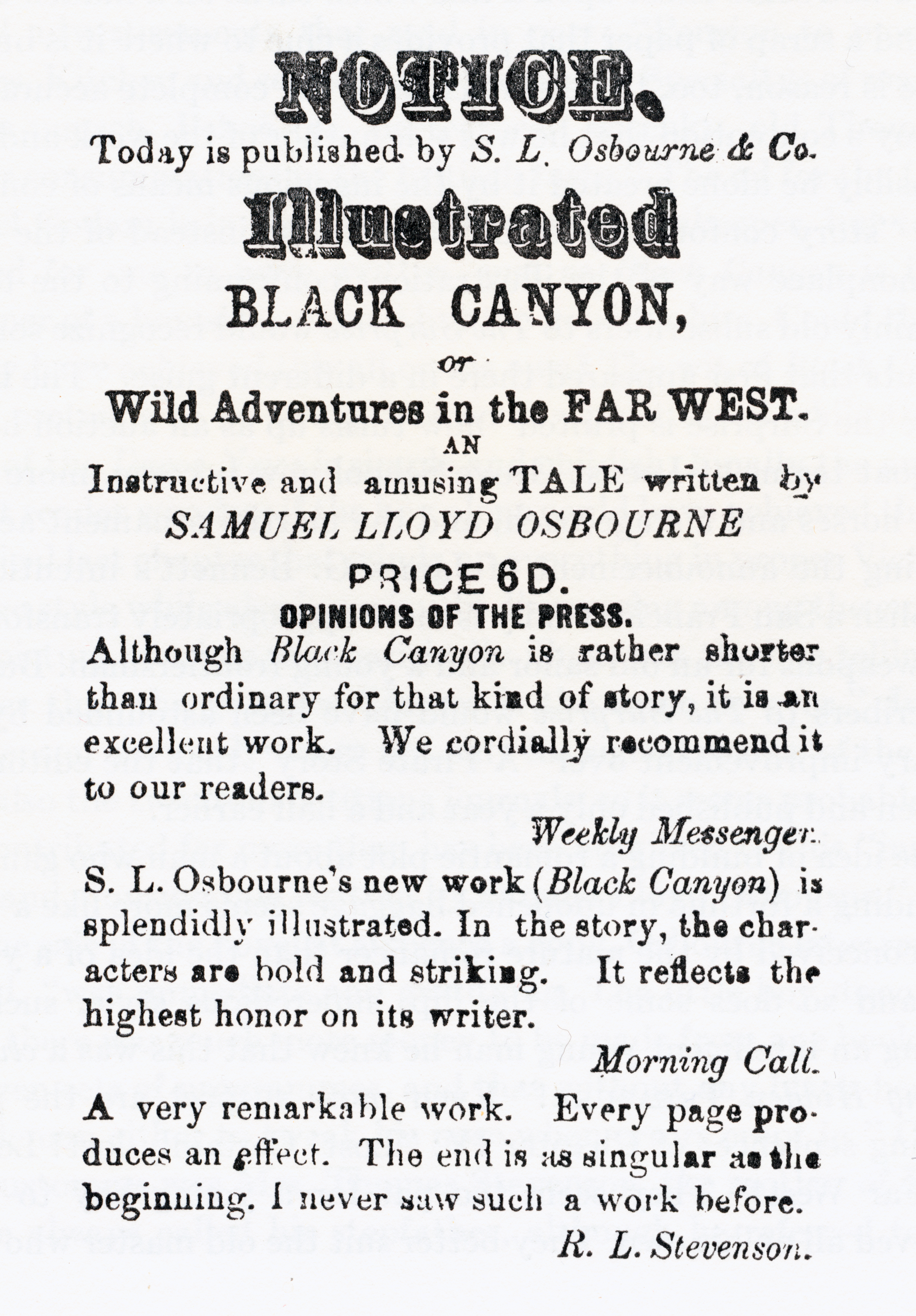 Advertisement for Black Canyon, published by and credited to Lloyd Osbourne.